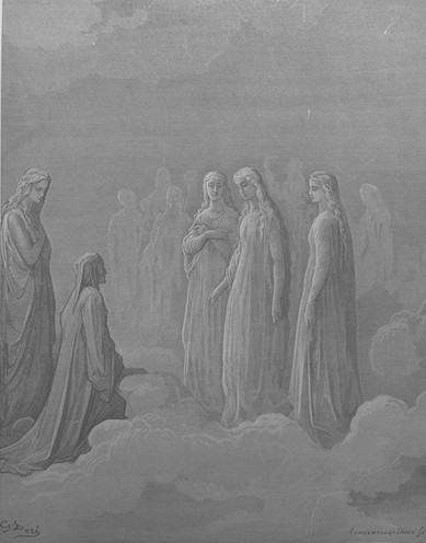 Paradiso III, 16, The Moon, Gustave Doré